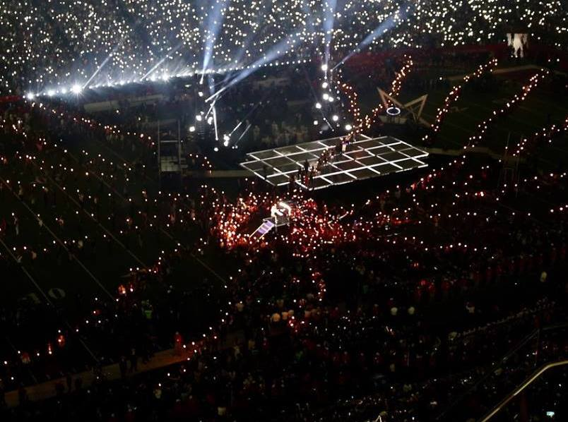 Lady Gaga performing "Million Reasons" at halftime